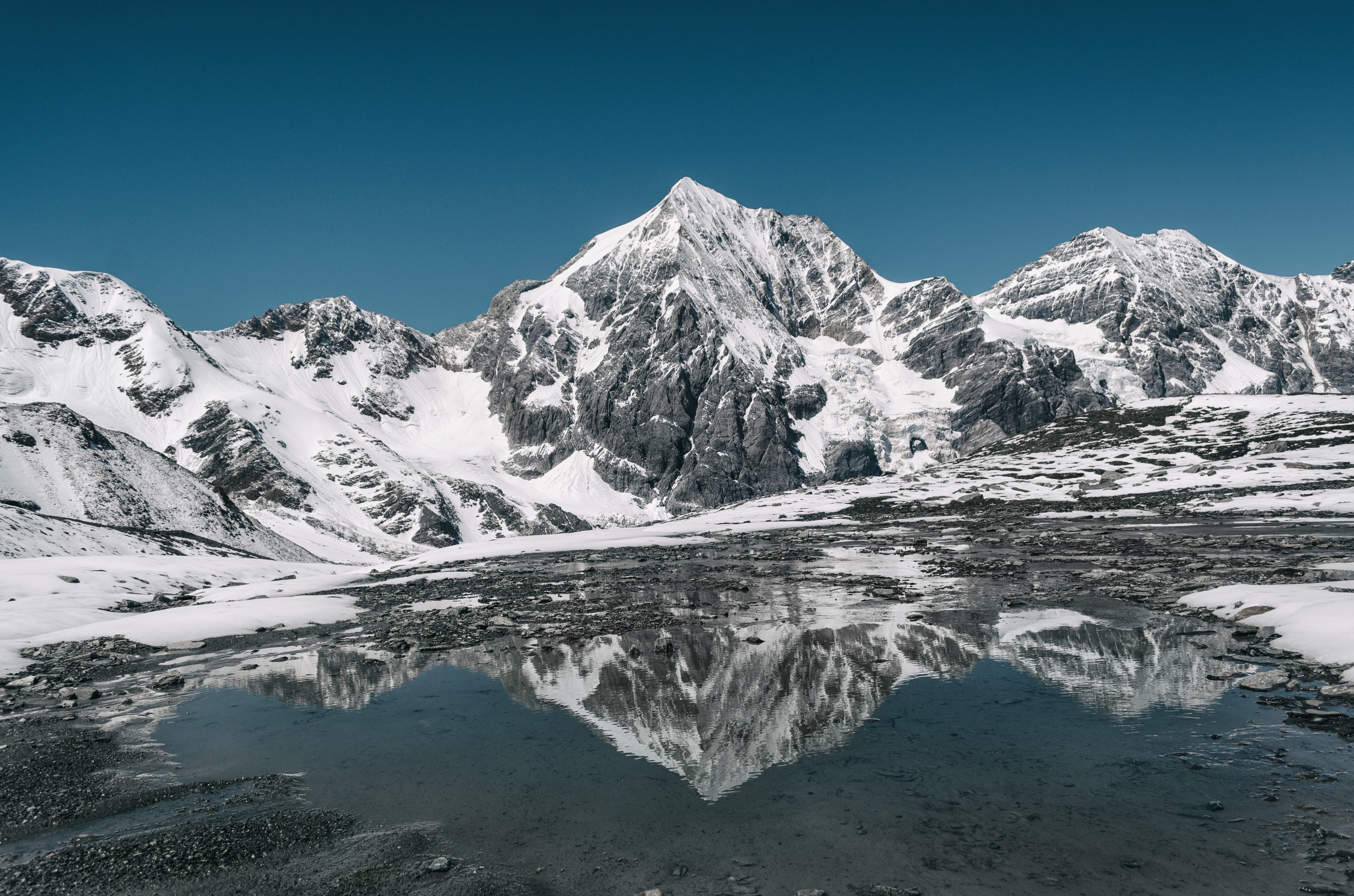 Ortler, Italy